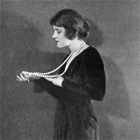 Photograph of Peggy Wood circa 1918. Detail of photo by Charlotte Fairchild, published in Distinctive Dress by Mary Brooks Picken, Scranton, P.A., 1918.